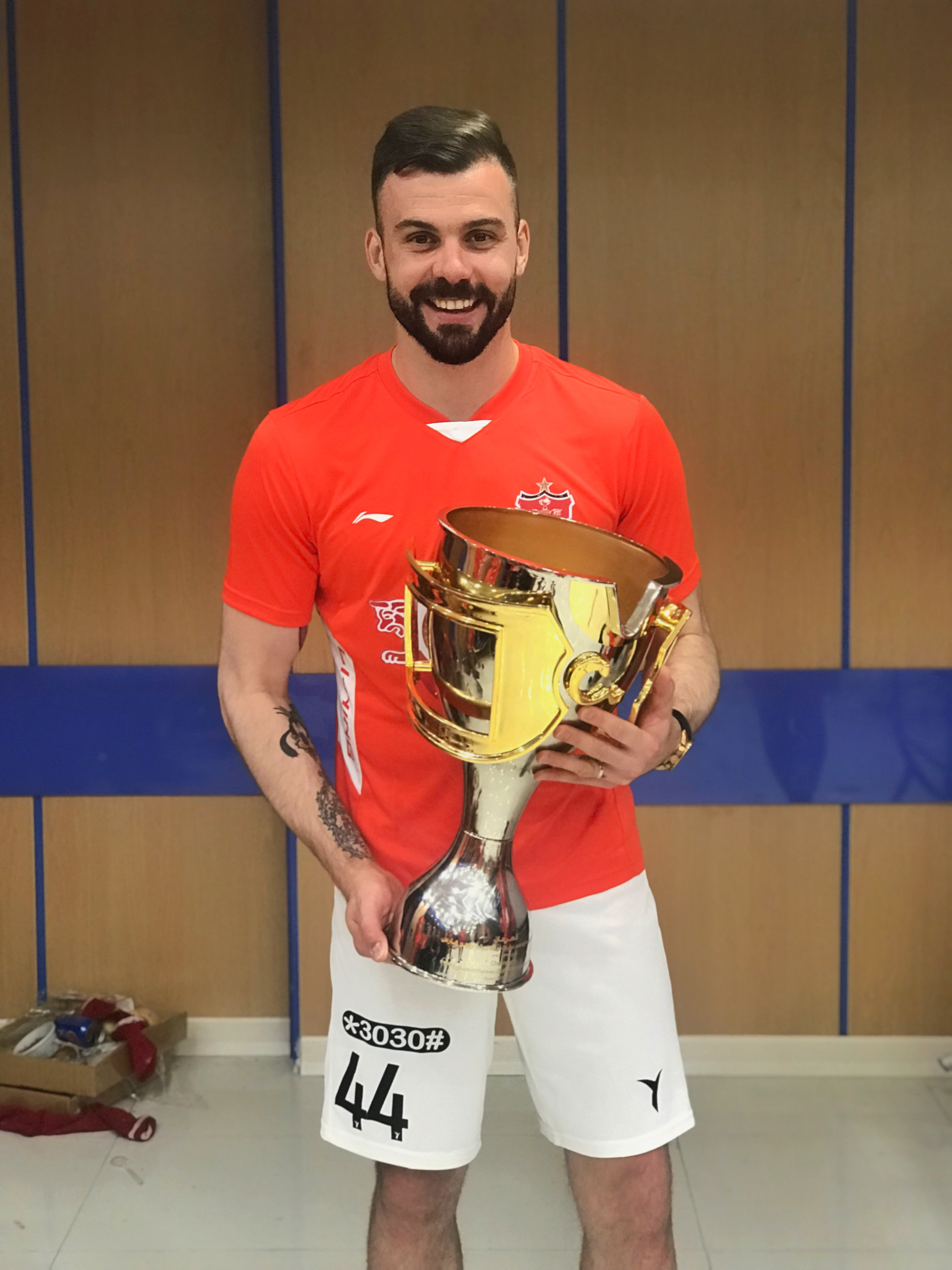 This file I made by myself